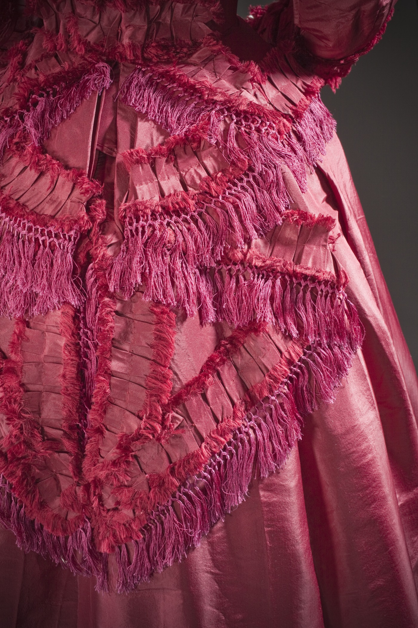 United States, circa 1870 Costumes Silk taffeta, linen plain weave and cotton twill weave with silk macramé fringe Purchased with funds provided by Suzanne A. Saperstein and Michael and Ellen Michelson, with additional funding from the Costume Council, the Edgerton Foundation, Gail and Gerald Oppenheimer, Maureen H. Shapiro, Grace Tsao, and Lenore and Richard Wayne (M.2007.211.773a-d) Costume and Textiles